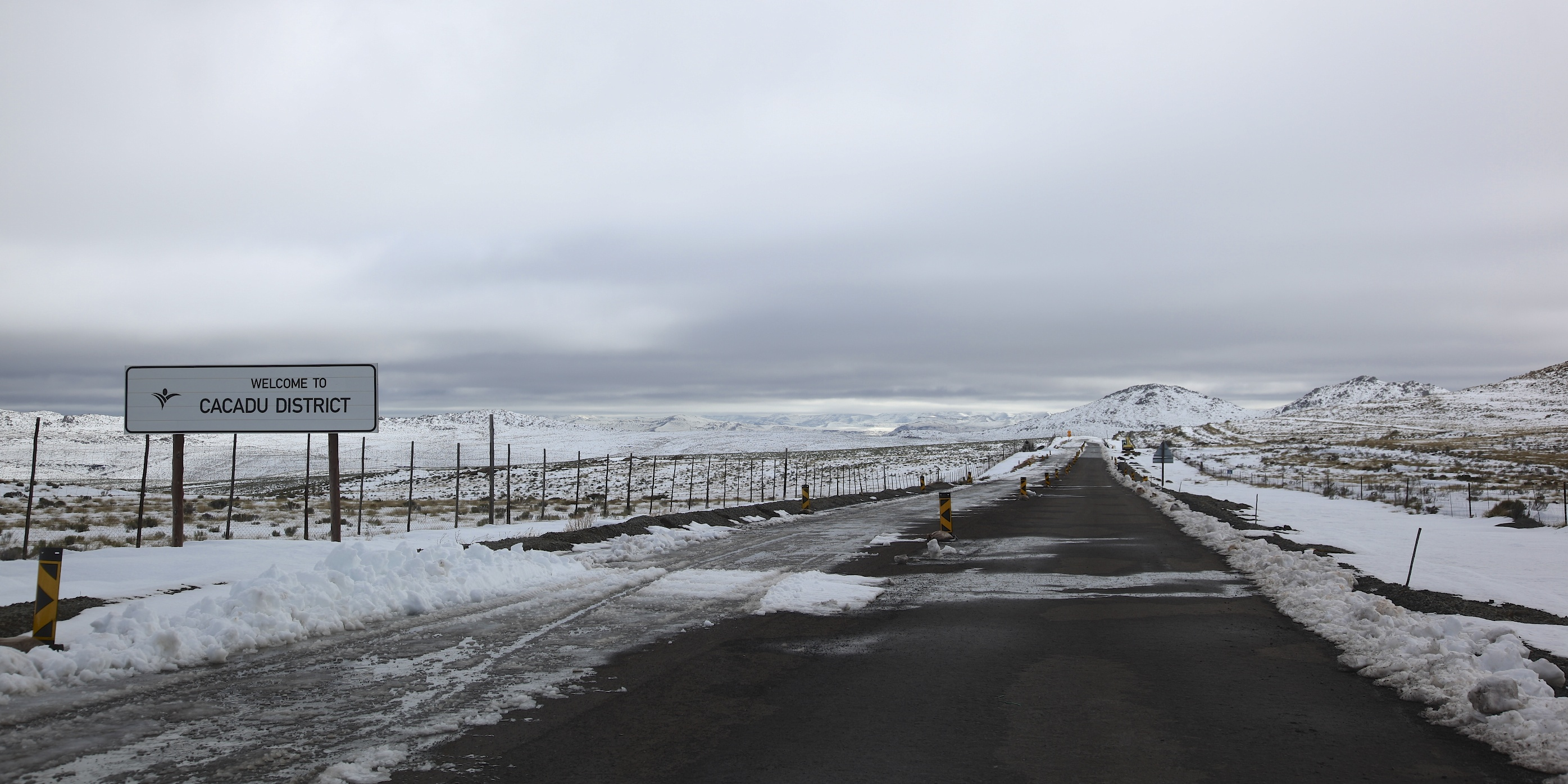 Snow on the R61, Eastern Cape, South Africa